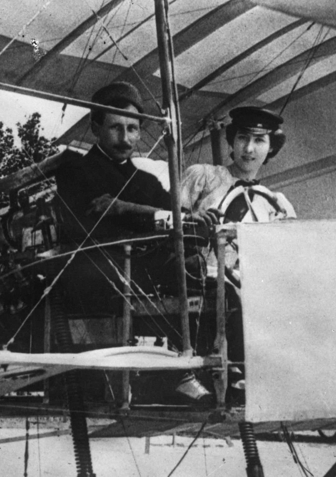 French aviators Léon Delagrange (1872-1910) and Thérèse Peltier (1873-1926) at Turin on 8 July 1908